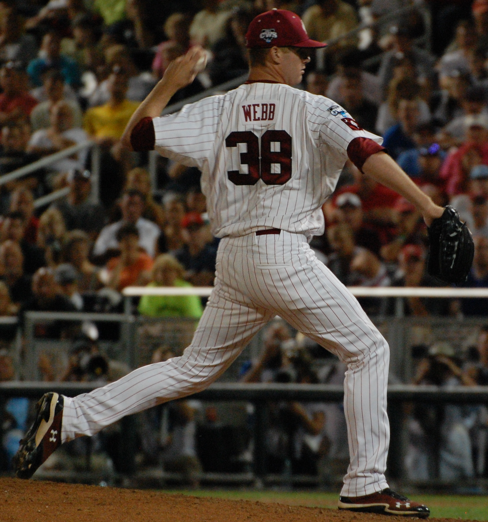 Tyler Webb delivers a pitch for the South Carolina Gamecocks during the 2012 College World Series at TD Ameritrade Park in Omaha